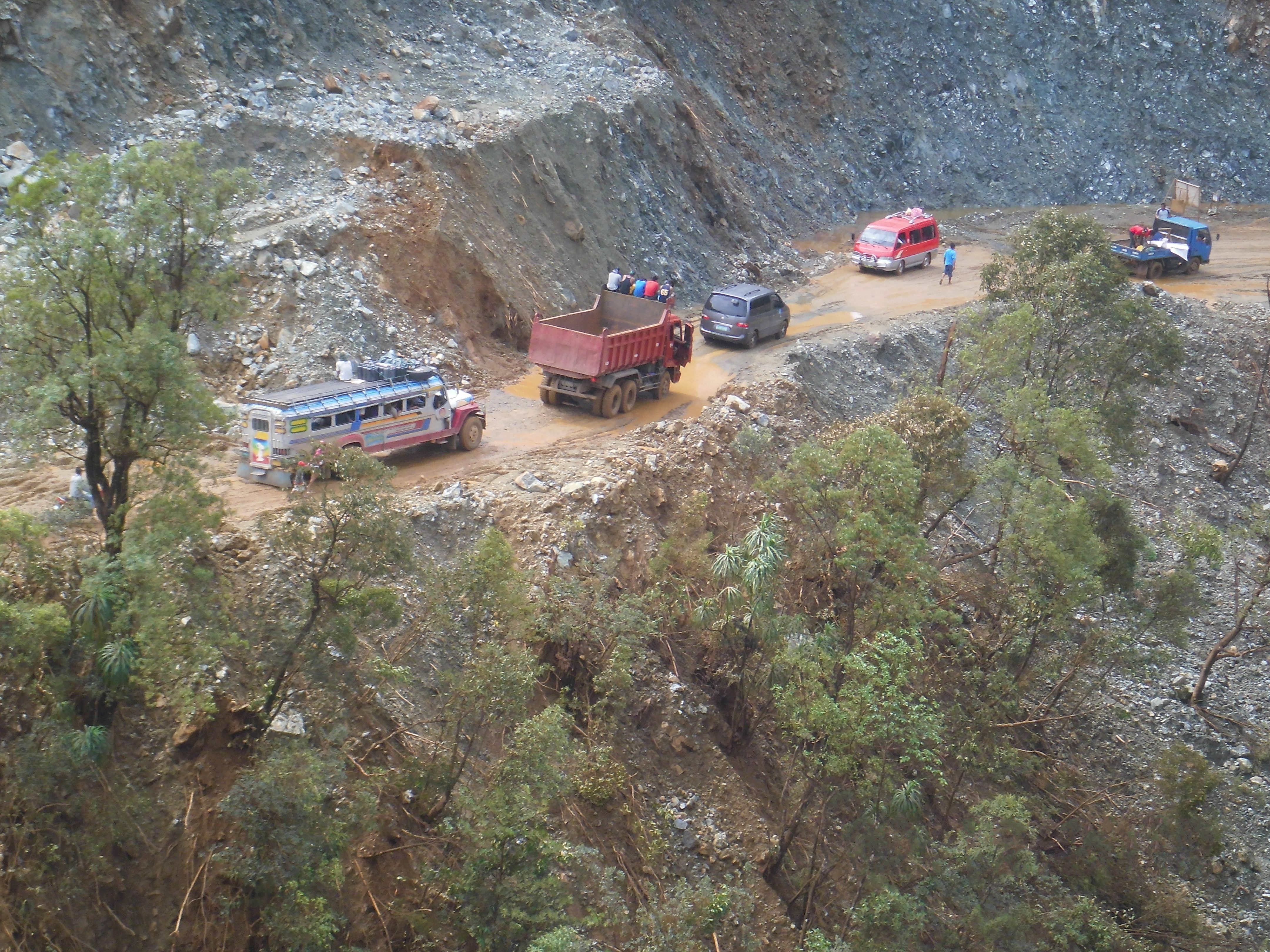 Mud-trapped cars between Adlay(Carrascal) and Claver